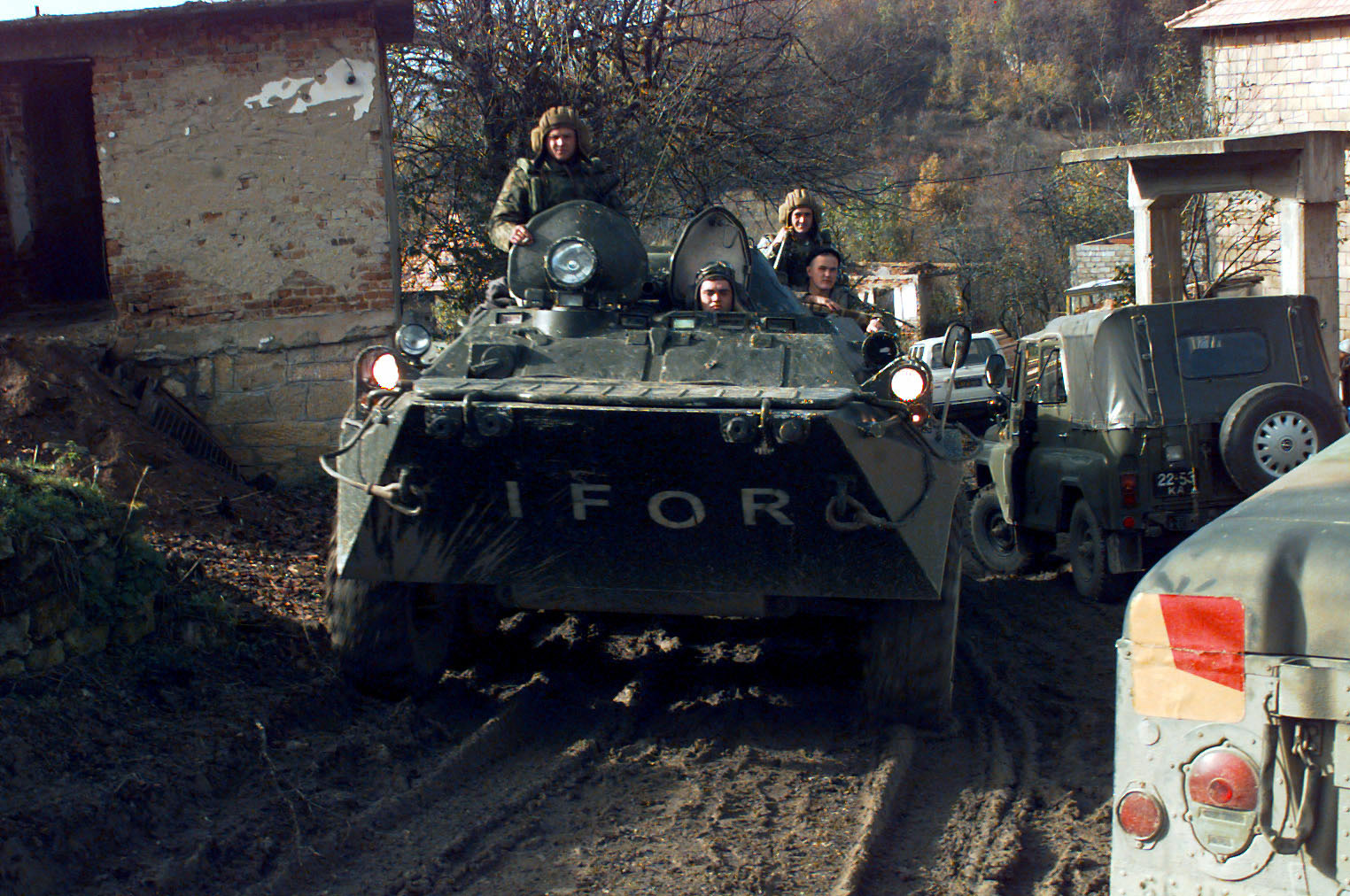 An IFOR marked Russian Army BTR-80 Armored Personnel Carrier (APC), with four crew members each standing up through open hatches, travels on a muddy road that runs through Jusici, Bosnia-Herzegovina, while on patrol in the Russian Sector enforcing the peace in the zone of separation. The Russians are in Bosnia participating in Operation Joint Endeavor, which is a peacekeeping effort by a multinational Implementation Force (IFOR), comprised of NATO and non-NATO military forces, deployed to Bosnia in support of the Dayton Peace Accords.